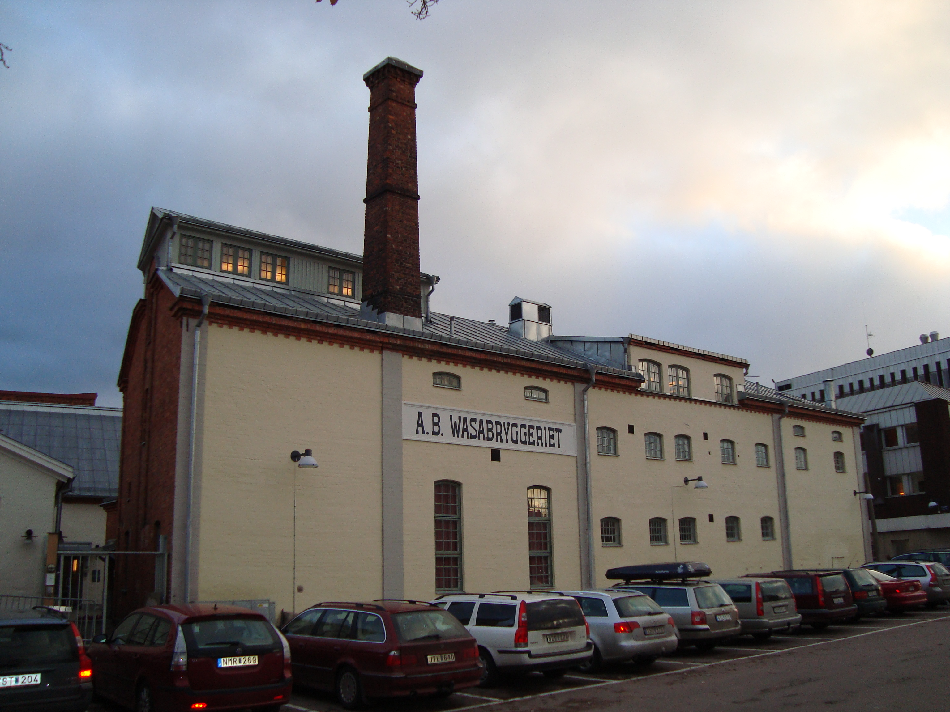 Wasabryggeriet, a former brewery in Borlänge, Sweden